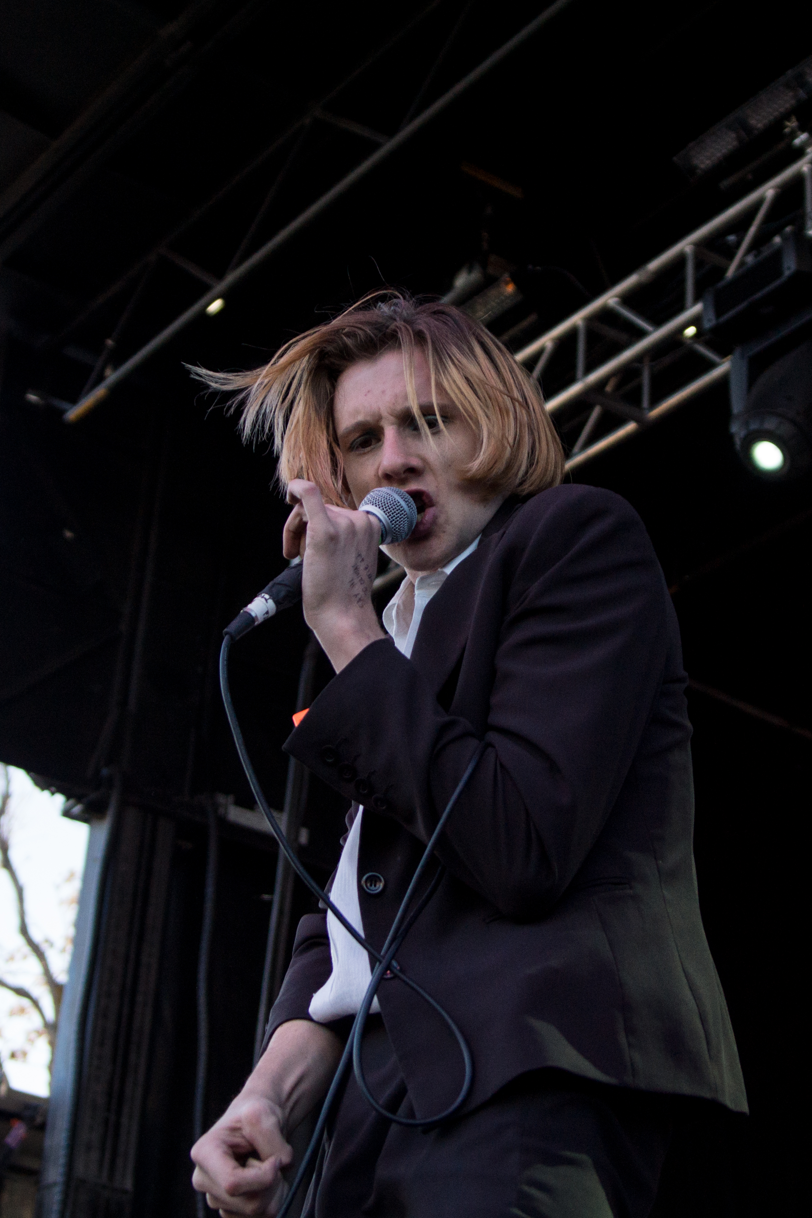 Foxygen-MainStage-Treefort-Credit-Amanda-Morgan-4